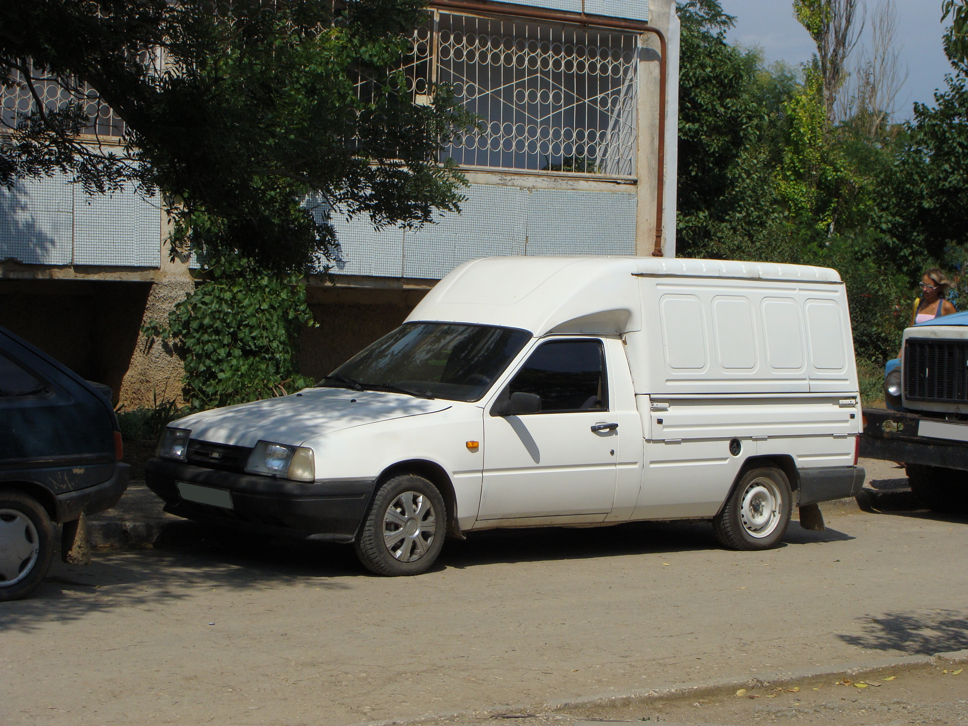 IZH-2717 (ODA Edition).